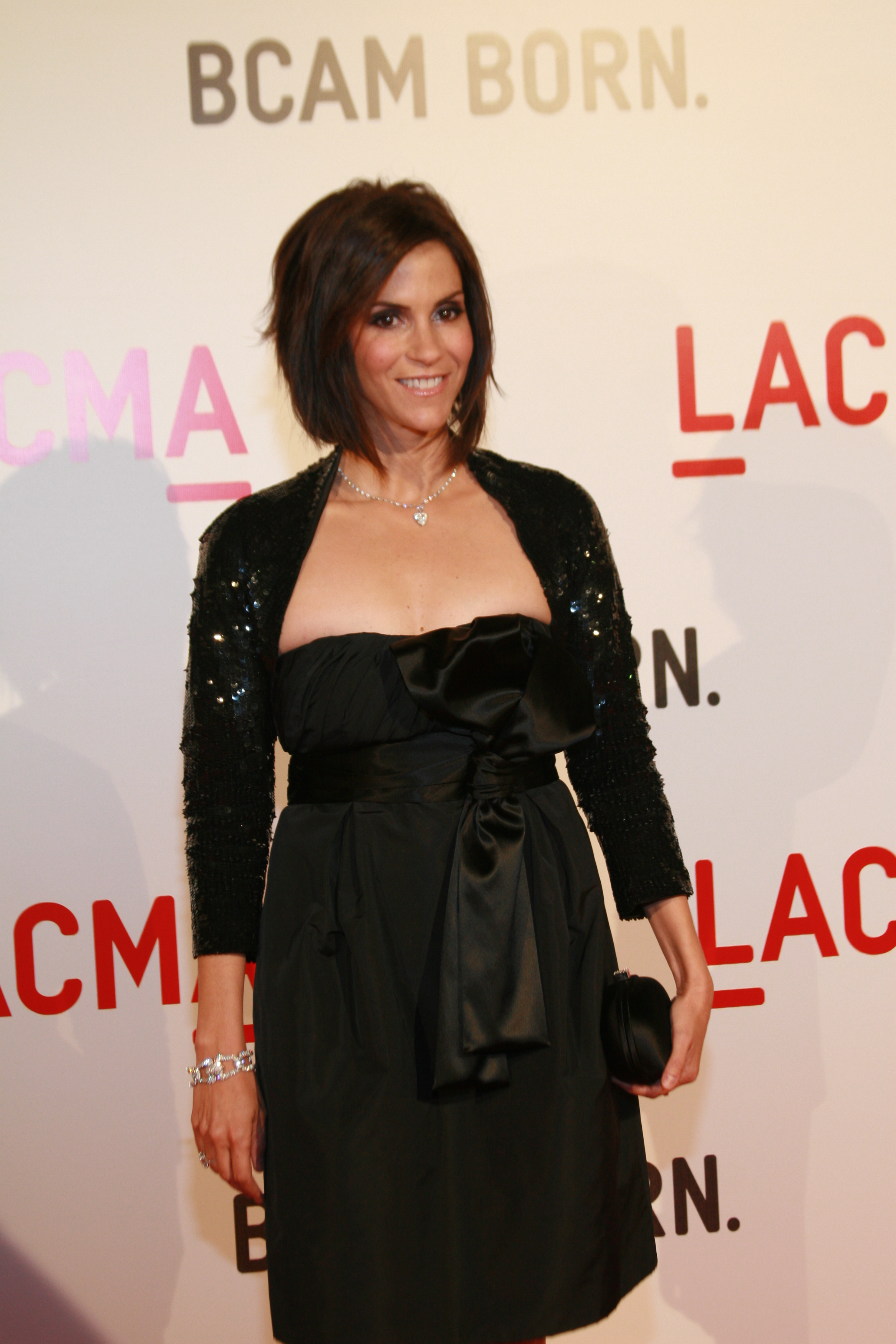 Jami Gertz arrives at the Opening of the Broad Contemporary Art Museum on February 9, 2008 in Los Angeles, CA.